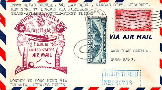 New York-London leg of cover carried around the world (New York-Shediac-Botwood-Foynes-Southampton-Cairo-Karachi-Singapore-Hong Kong-Manila-Guam-Wake I.-Midway I.-Honolulu-San Francisco-New York) via PAA (Boeing 314 Clipper) and Imperial Airways (Short S23) including FAM 18 (Northern Route) First Flight, June 24 - July 28, 1939